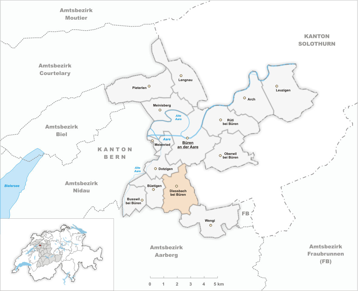 Municipality Diessbach bei Büren